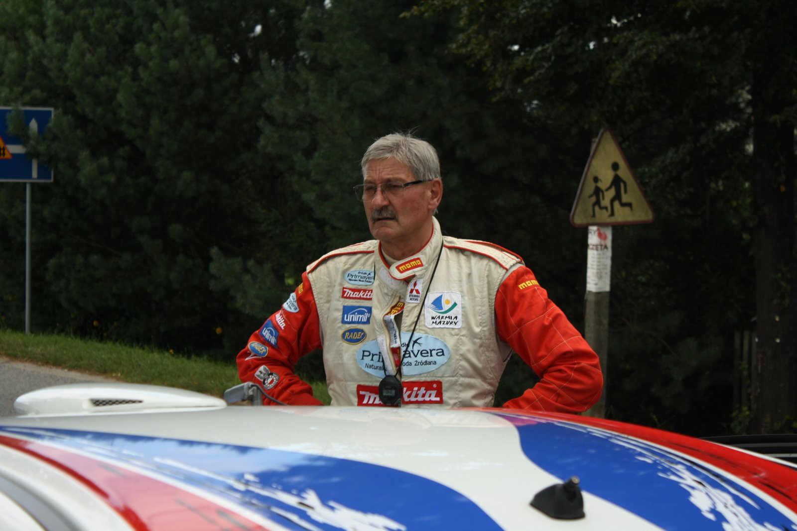 Maciej Wisławski, polish rally pilot